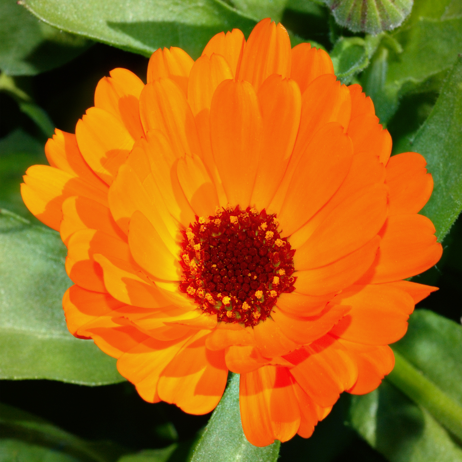 This image shows a marigold close-up shoot from top.